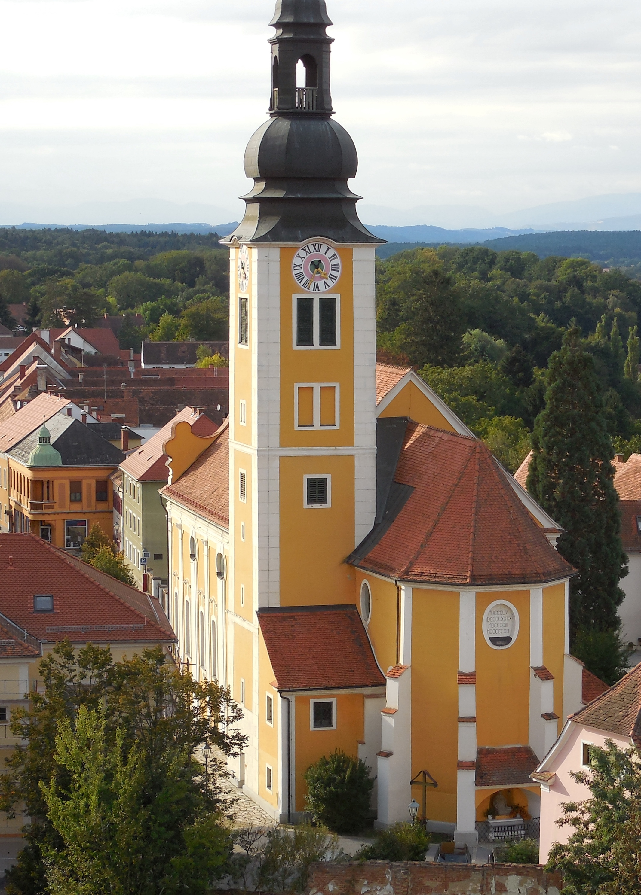 Fürstenfeld